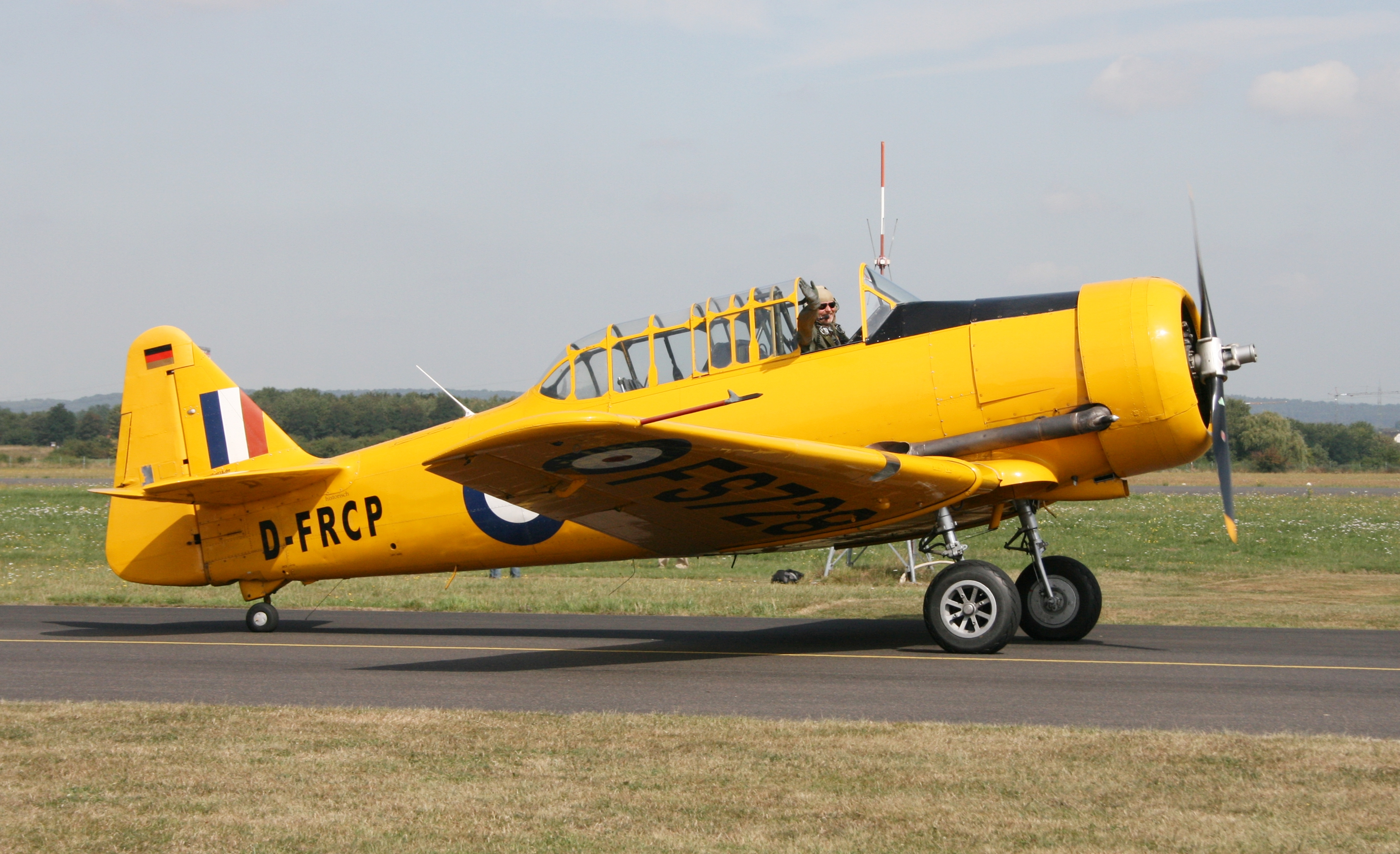 aircraft North American Harvard T6 AT16 II B (D-FRCP) at airfield Bonn/Hangelar, germany